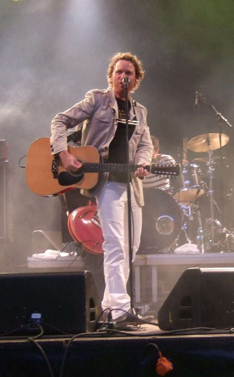 Magnus Grønneberg at the park festival in Bodø 2007